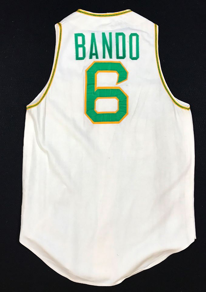 1970 Oakland Athletics #6 Sal Bando Game Worn Jersey restored and photographed by William F. Henderson. For more information and to contact me, see my website